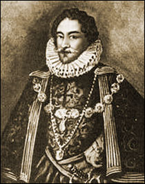 Francis Manners, 6th Earl of Rutland (1578-1632) NOTE: This has been identified by Roger Stritmatter as an image of Francis Rutland, 6th Earl of Rutland. and